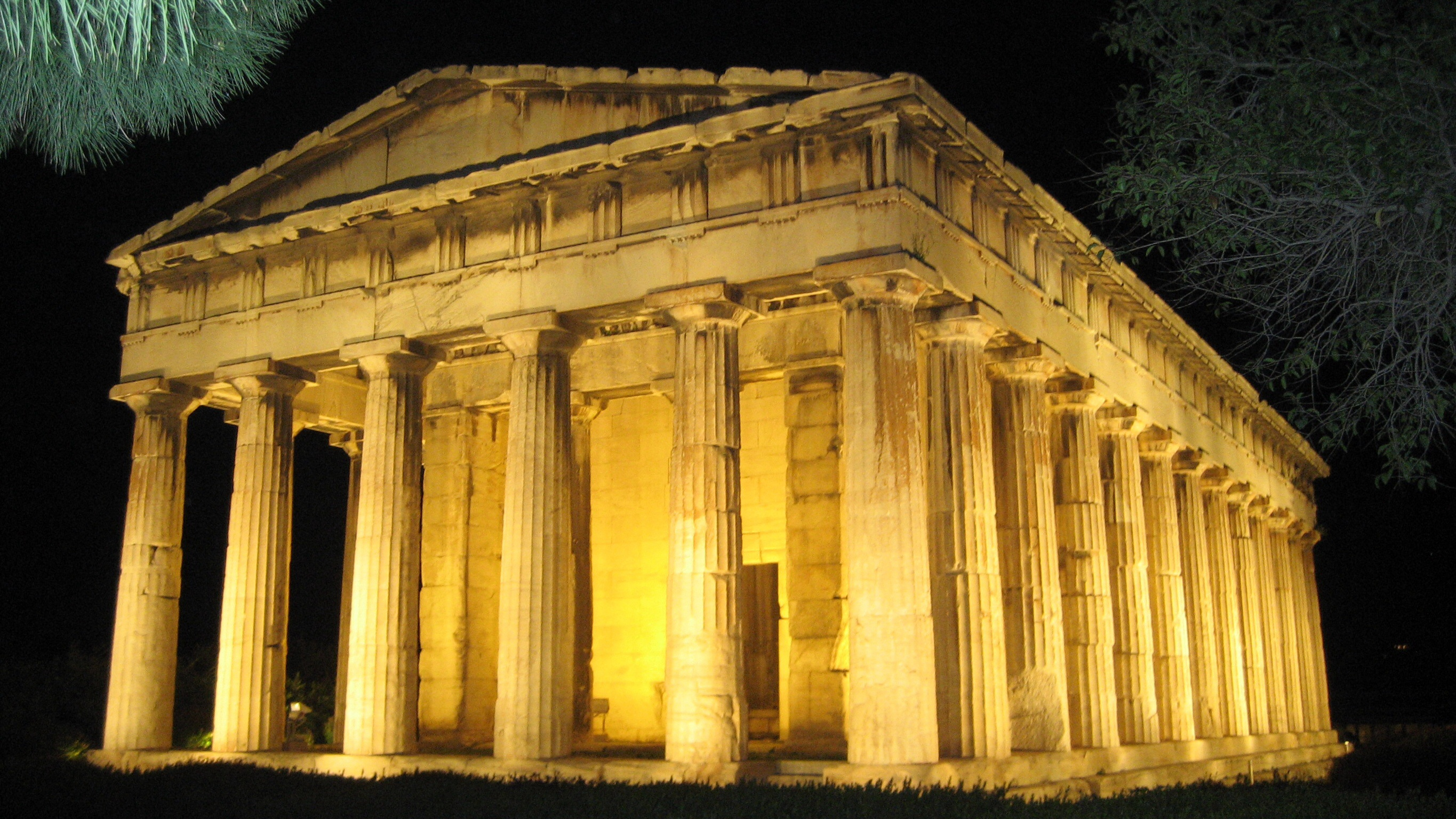 The Temple of Hephaestus or Hephaisteion (also Hephesteum; Ancient Greek: Ἡφαιστεῖον, Modern Greek: Ναός Ηφαίστου) or earlier as the Theseion (also Theseum; Ancient Greek: Θησεῖον, Modern Greek: Θησείο), is a well-preserved Greek temple; it remains standing largely as built. It is a Doric peripteral temple, and is located at the north-west side of the Agora of Athens, on top of the Agoraios Kolonos hill. From the 7th century until 1834, it served as the Greek Orthodox church of St. George Akamates.